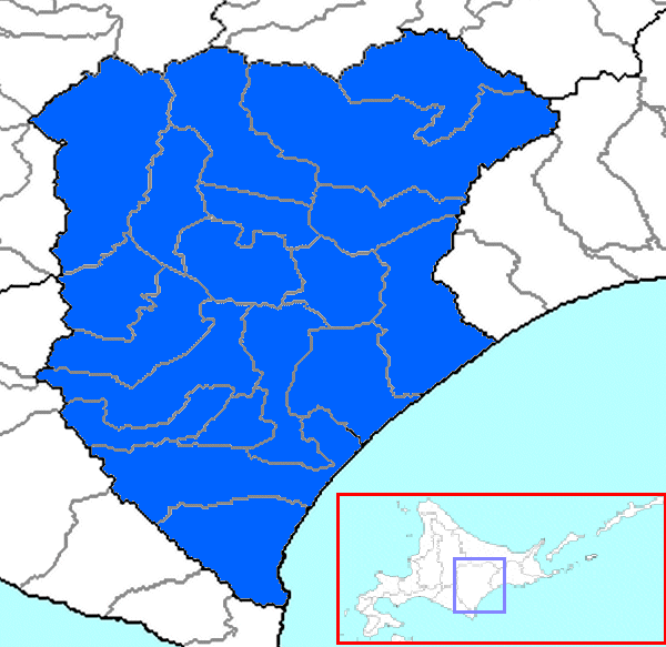 The map of Tokachi Subprefecture in Hokkaido Prefecture, Japan.